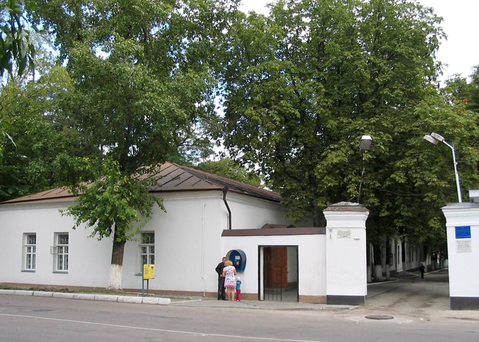 City hospital and clinic in Kirovohrad, Ukraine.